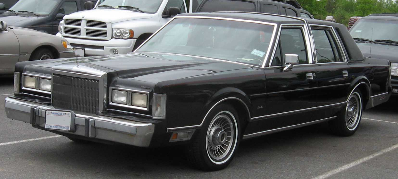 1988 Lincoln Town Car photographed in Clinton, Maryland, USA.